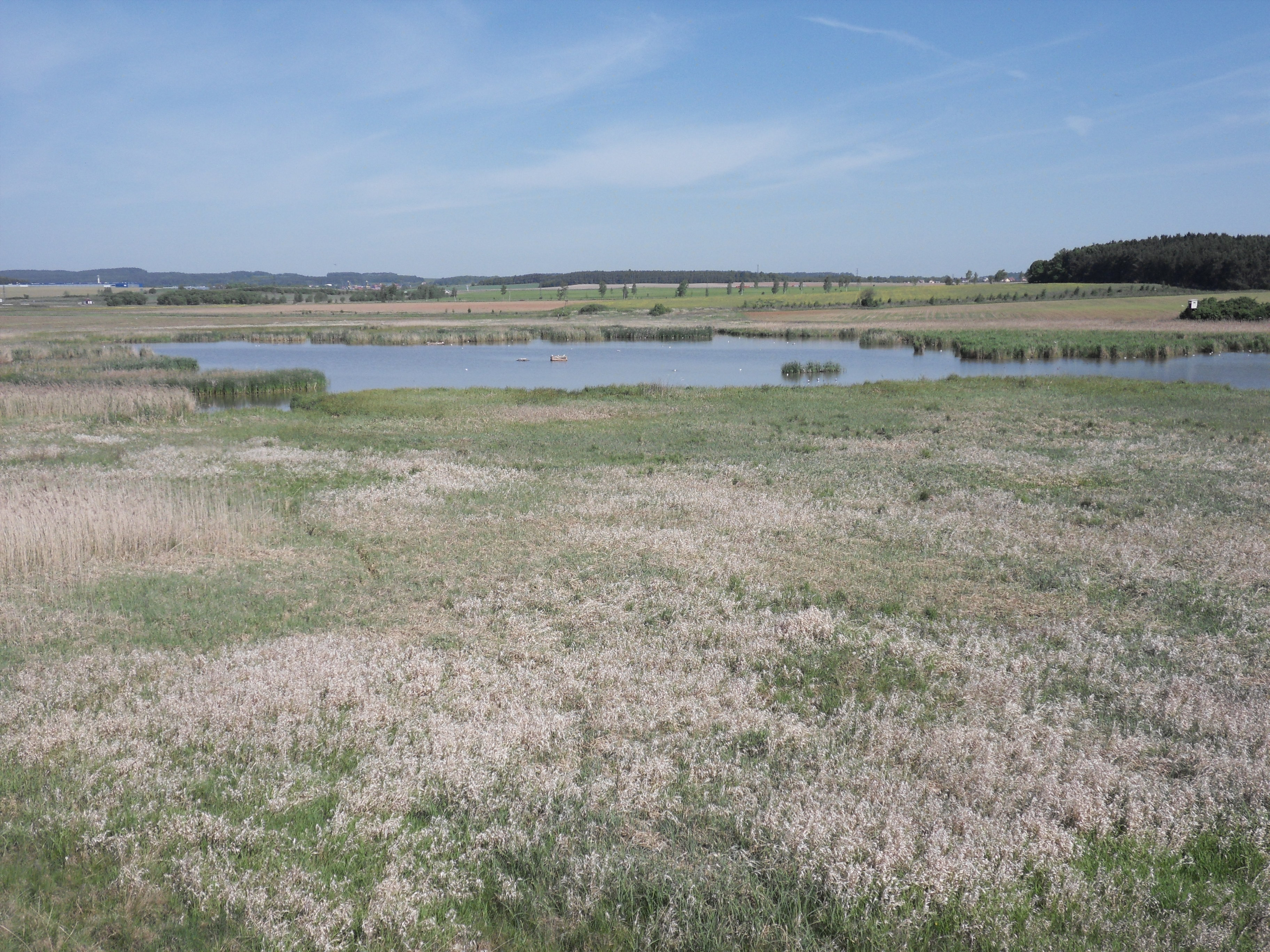 Natural reserve Nový rybník located between the villages Úherce and Líně in Plzeň-sever District, Czech Republic.